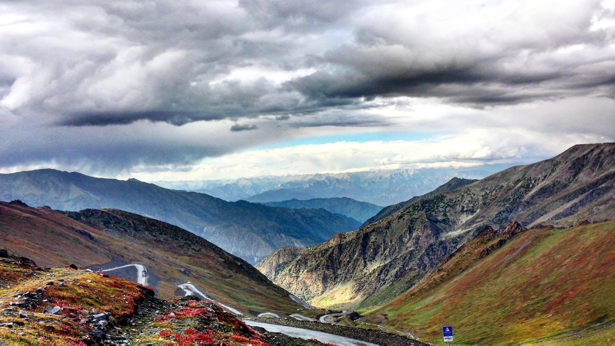 Highest point of kaghan valley (Babusar top) surrounded by Rakaposhii (meaning snow covered) - 27th highest peak in the world and Malika Parbat (queen of mountains) - one of the highest and most difficult mountains to climb in the himalayan range